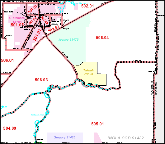 Detail of map made by the US Census Bureau [1] and is in the public domain.